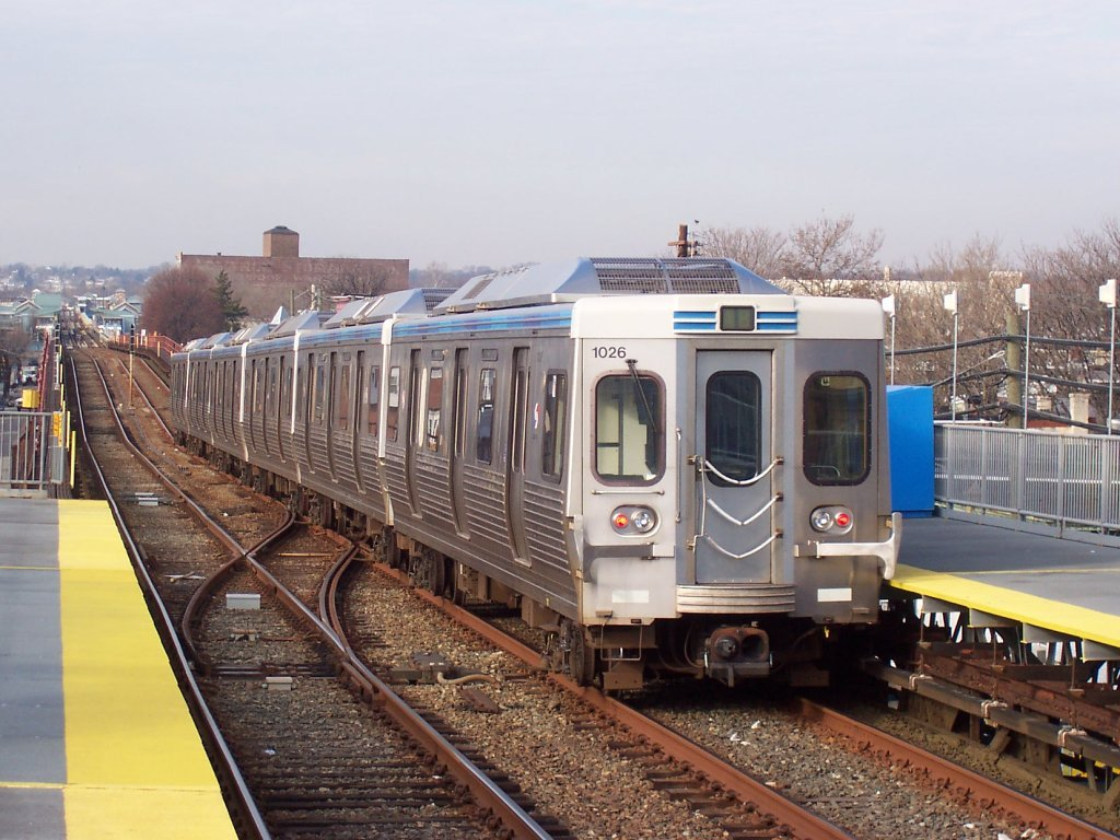 Market Frankford train leaving the 52 Street Station bound for 69 Street.